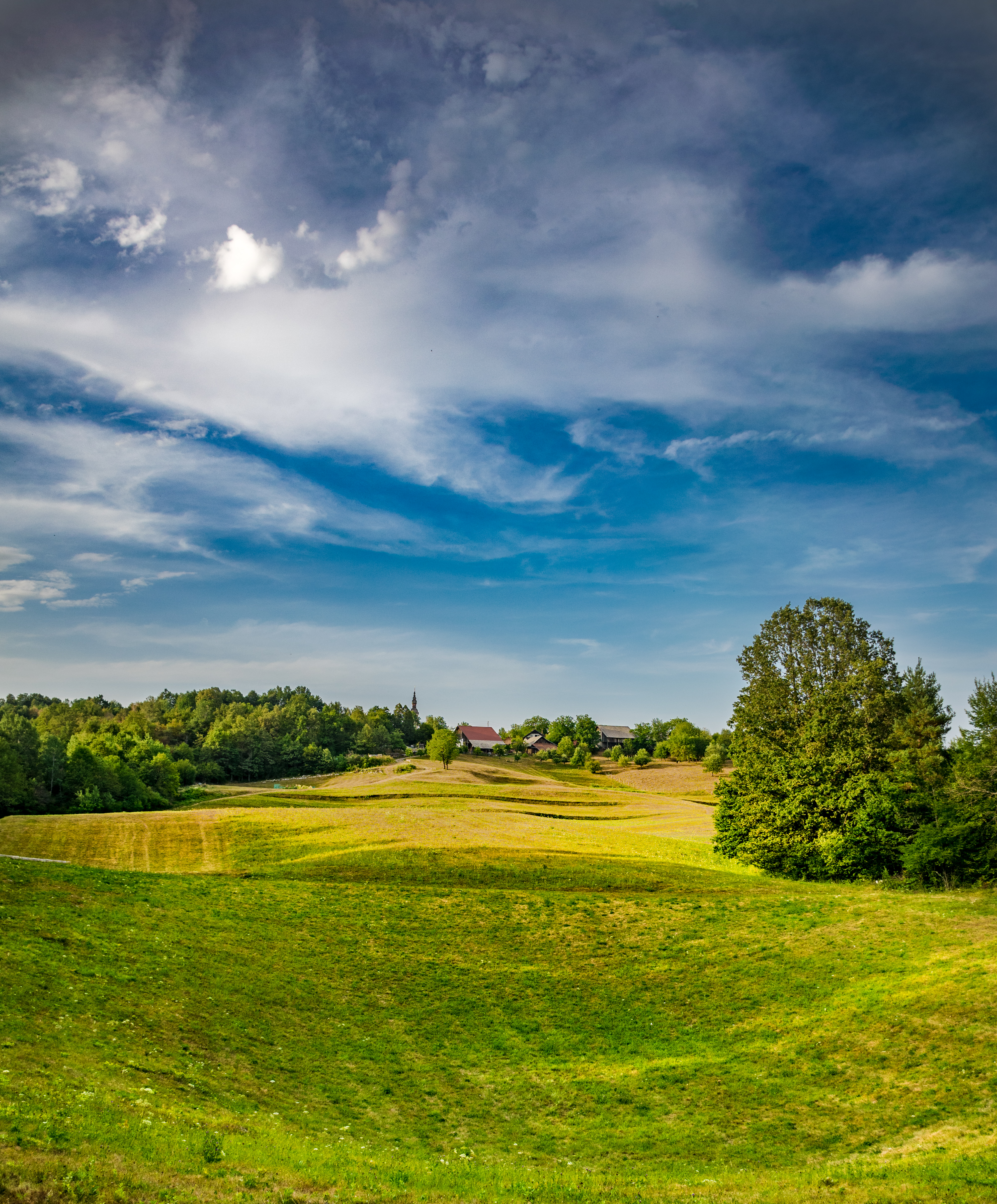 Village of Vinji vrh, seen from below.